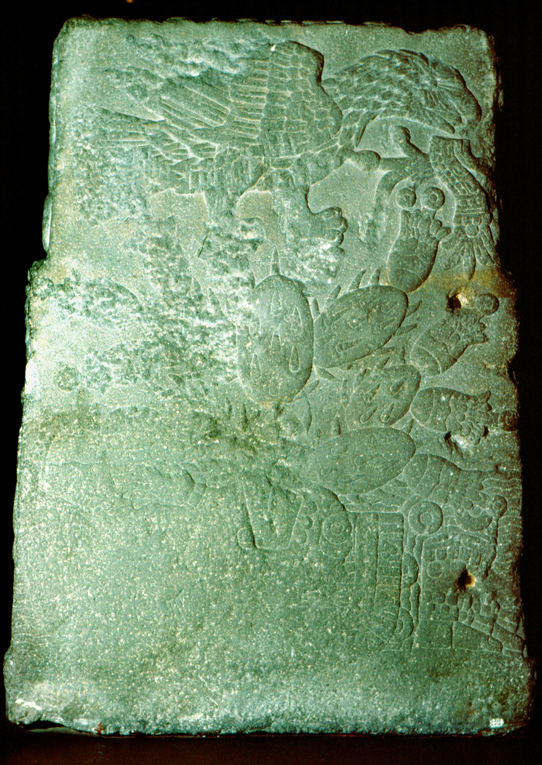 Teocalli de la Guerra Sagrada, back (Museo Nacional de Antropología)